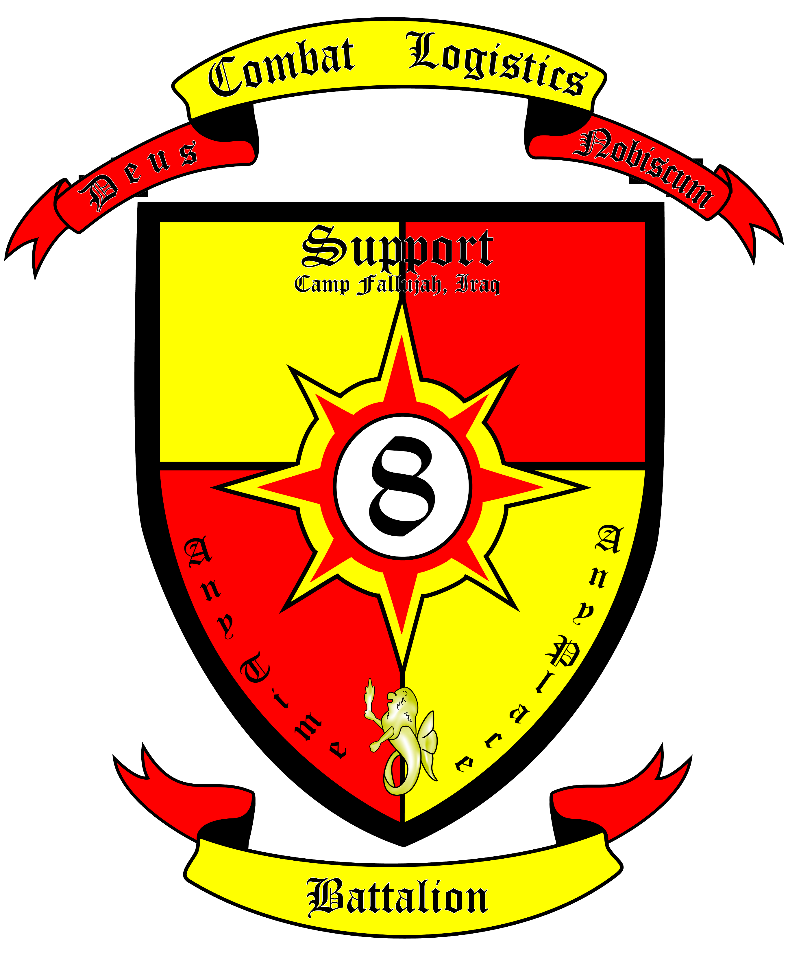 Unit insignia for Combat Logistics Battalion 8